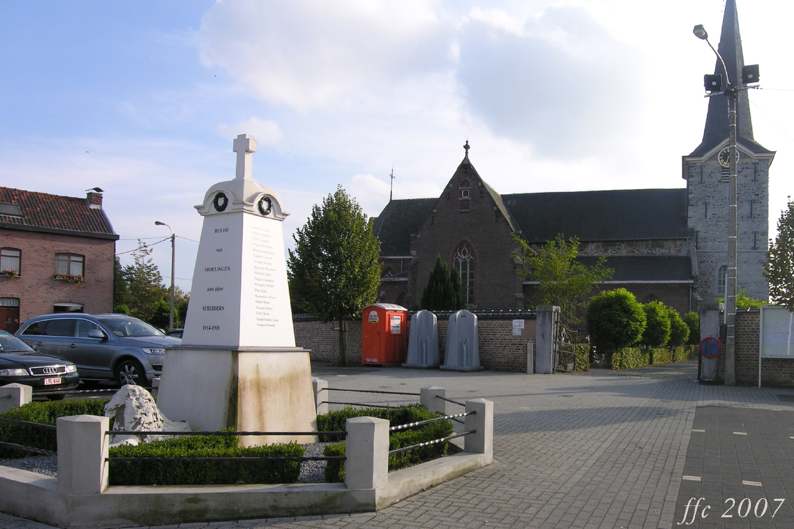 Voeren (Moelingen), Belgium: Church and Central Square